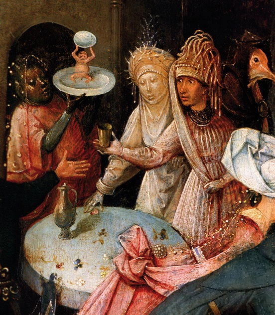 The Temptation of Saint Anthony, detail.